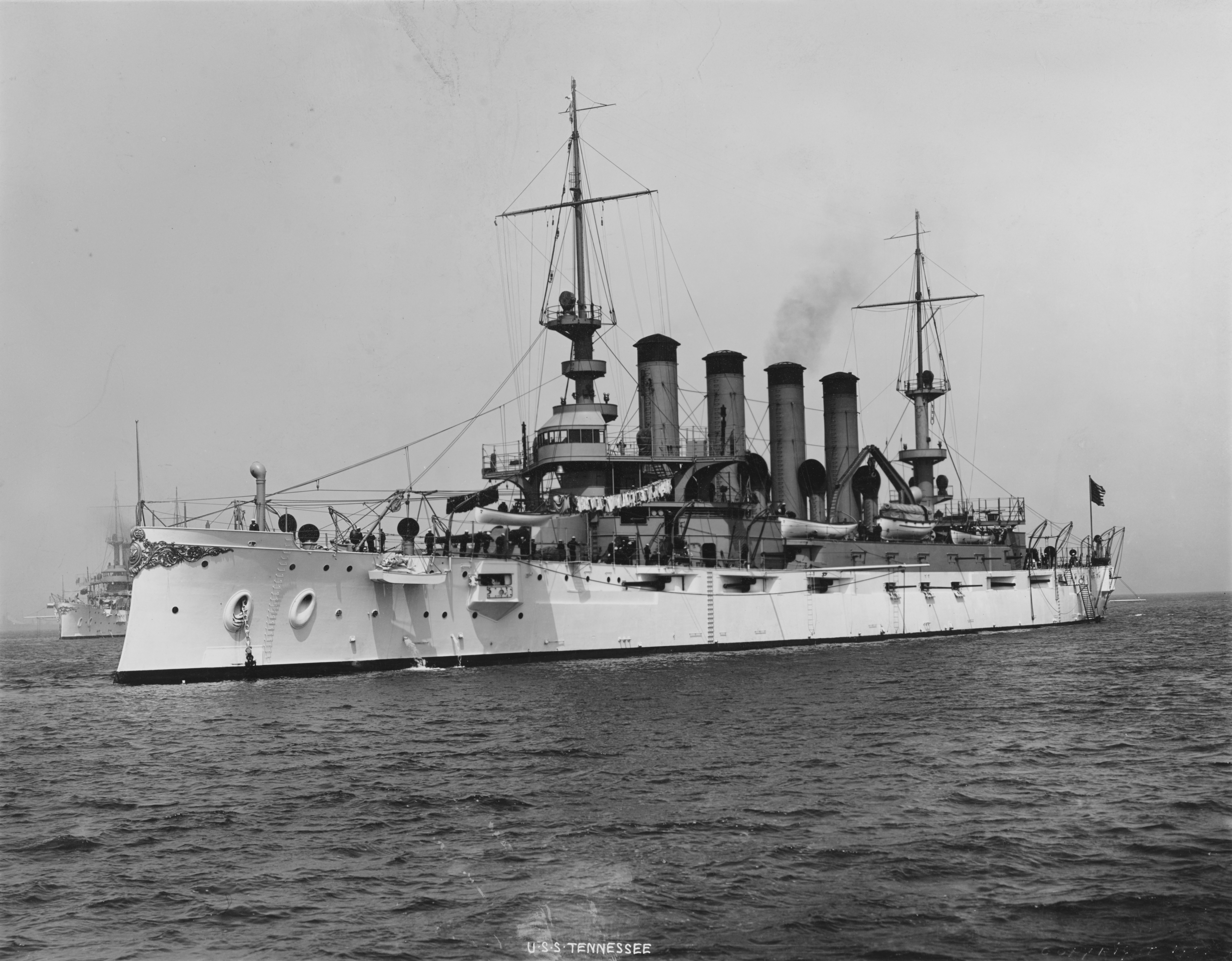 United States Navy armored cruiser USS Tennessee (Armored Cruiser No. 10)